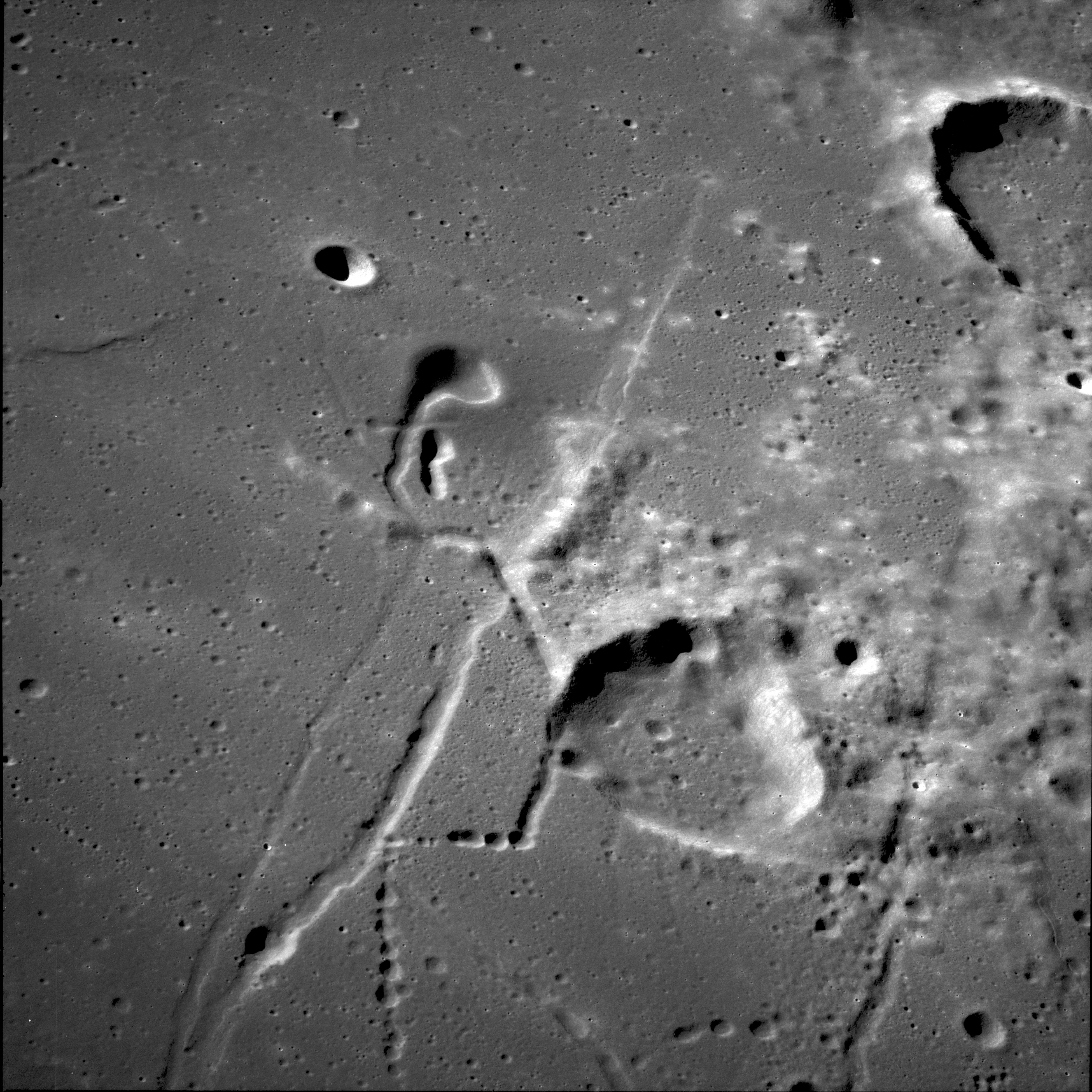 Lubbock H crater and vicinity, including Lubbock in upper right, Mare Fecunditatis, on the Moon, facing south. Volcanic vent with sinuous rille transiting into a pit crater chain is seen.